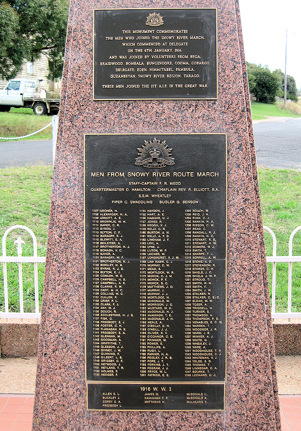 Memorial to the 'Men from Snowy River March' started at Delegate, NSW, January 16th 1916. The men all joined the AIF in the Great War.